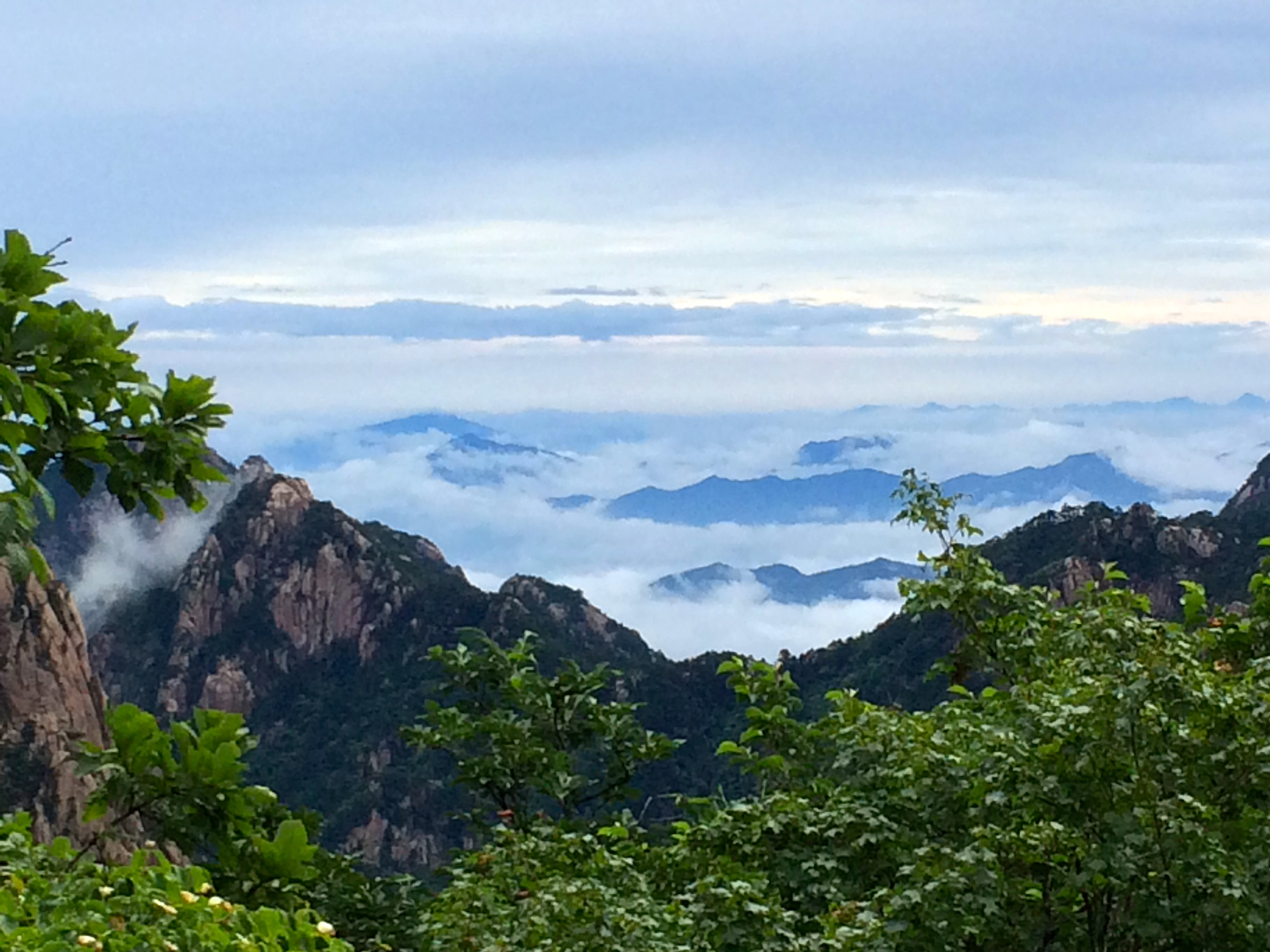 Sea of clouds viewed from the top of Huangshan